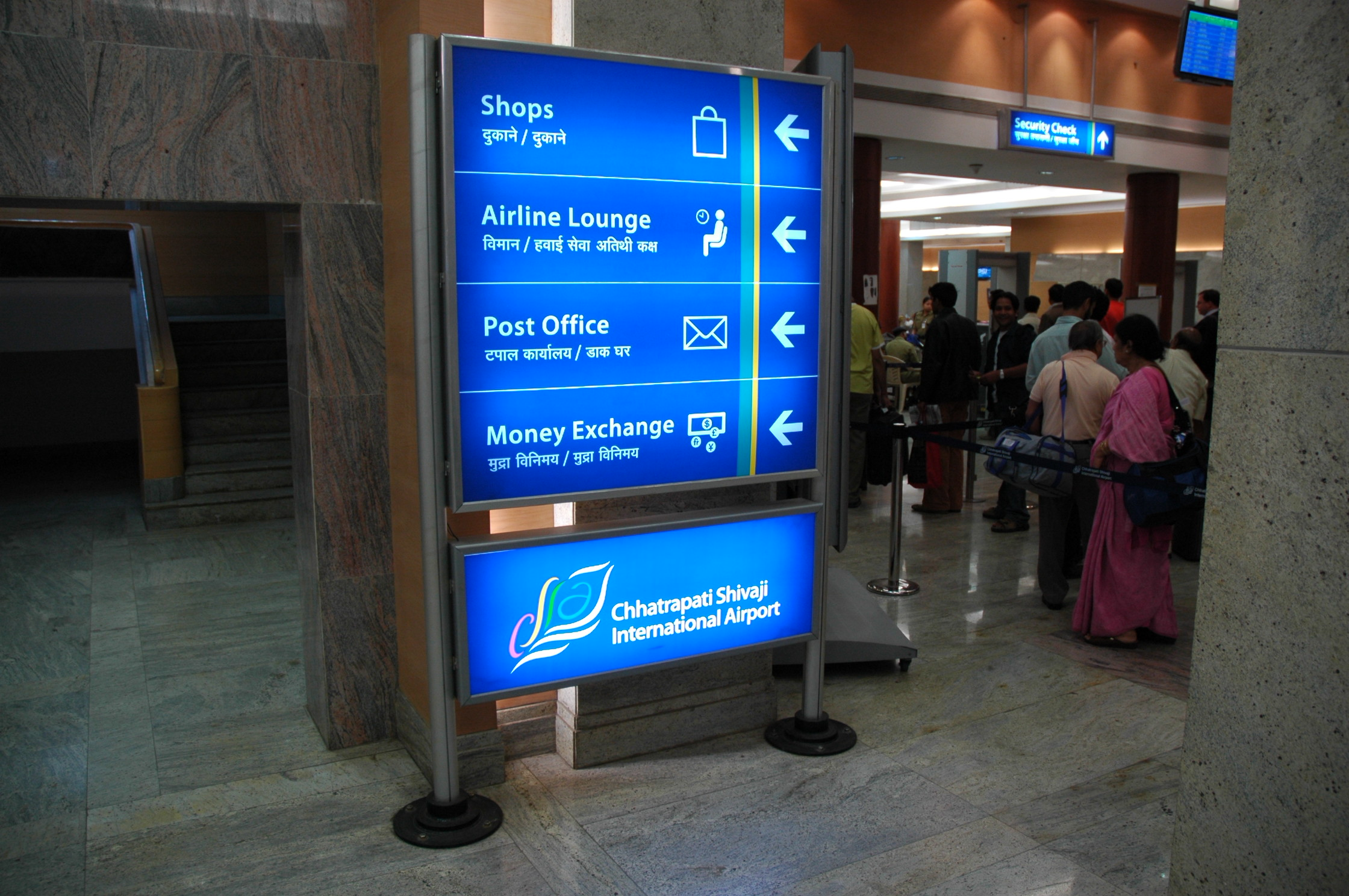 Upgraded signage.